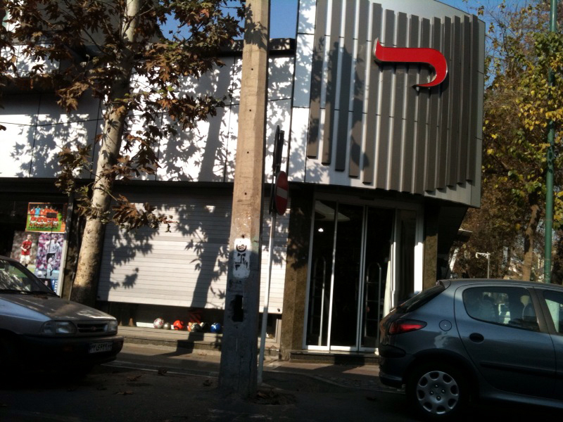 Daei`s Central Shopping Store